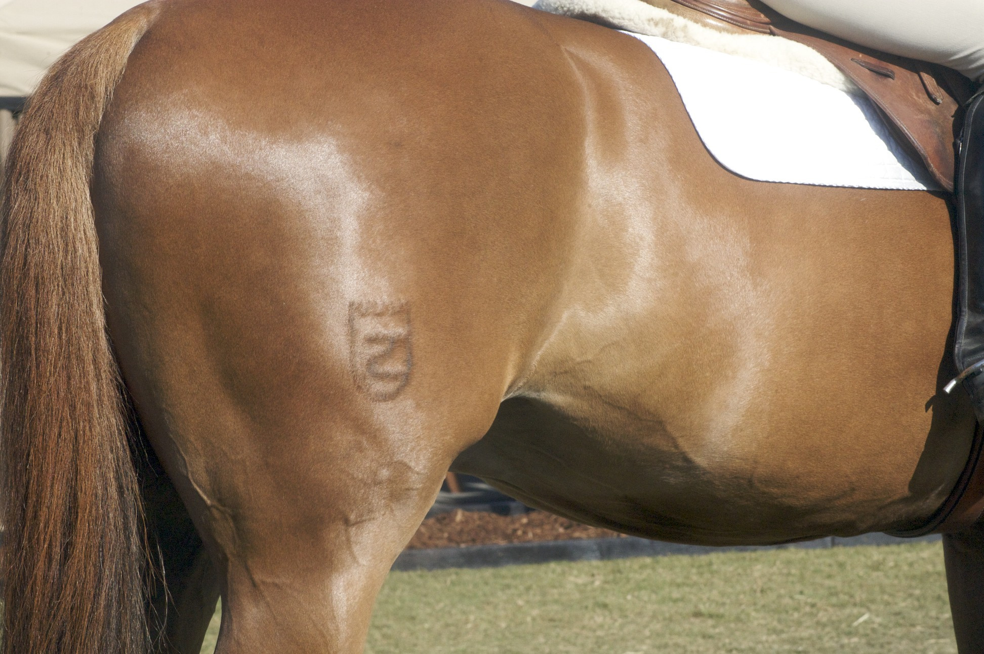 The Zangersheide stud brand